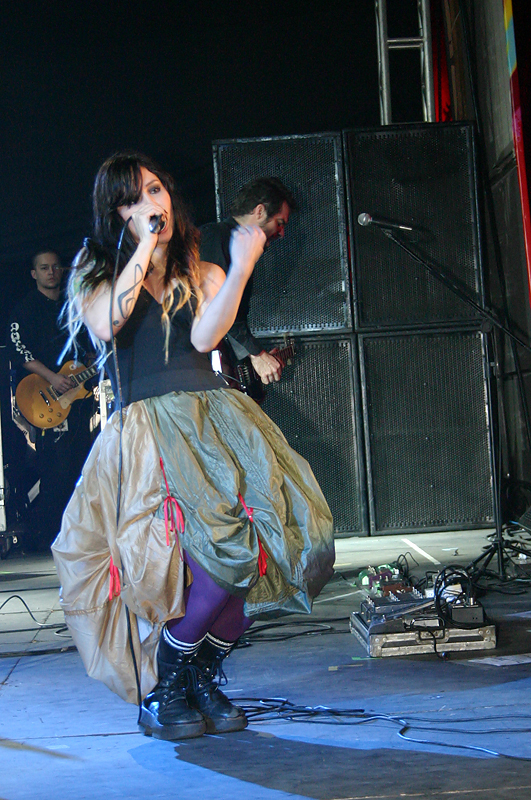 Brazilian singer Pitty.